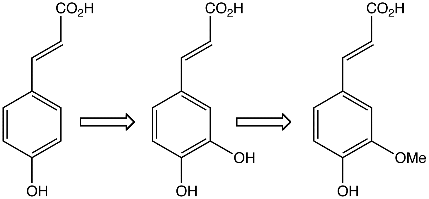 structure of caffeic acid as an intermediate